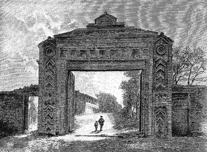 Mansion of Prince David Chavchavadze in Tsinandali (Roskoschny, 1884)